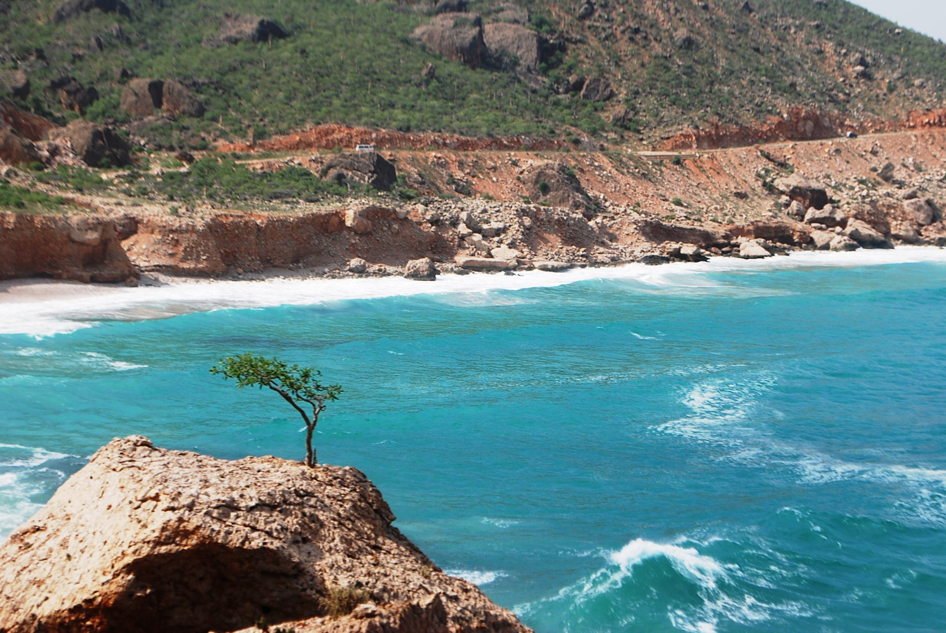 water island coast waves yemen arabiansea socotra soqotra